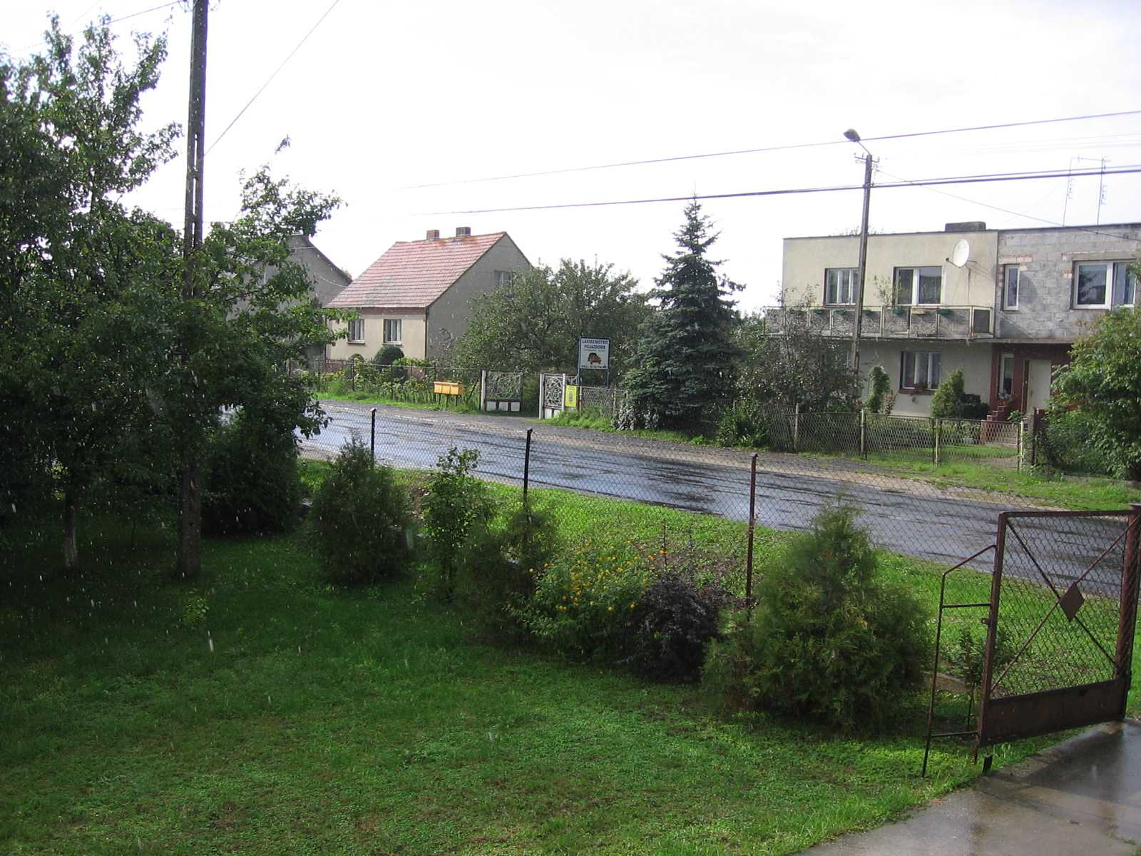 Mainroad in Padniewko, typical houses.